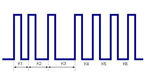 Timing diagram of a pulse pause modulation (ppm)